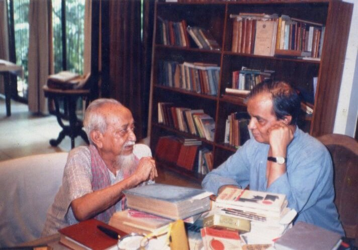 Bengali Intellectuals, Prof. Abdur Razzak, and Ahmed Sofa